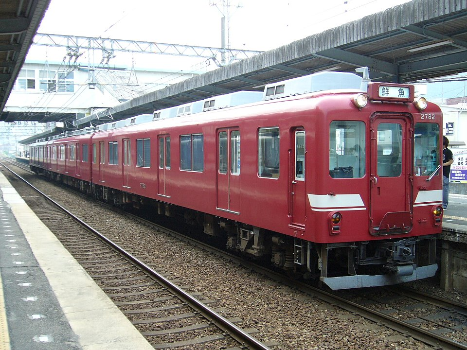 Kintetsu Sengyo Ressha (Fresh Fish Train) at Haibara Station.